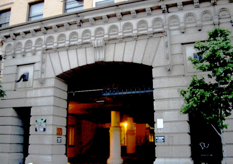 463 West St, Bell Laboratories Building (Manhattan) Gate Entrance